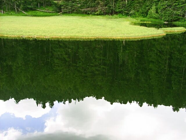 VIsitorsko lake in Prokletije mountains, Montenegro